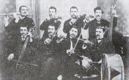 The Armenian musical band of Adana, 1902-06. Victims of the Adana massacre in 1909.